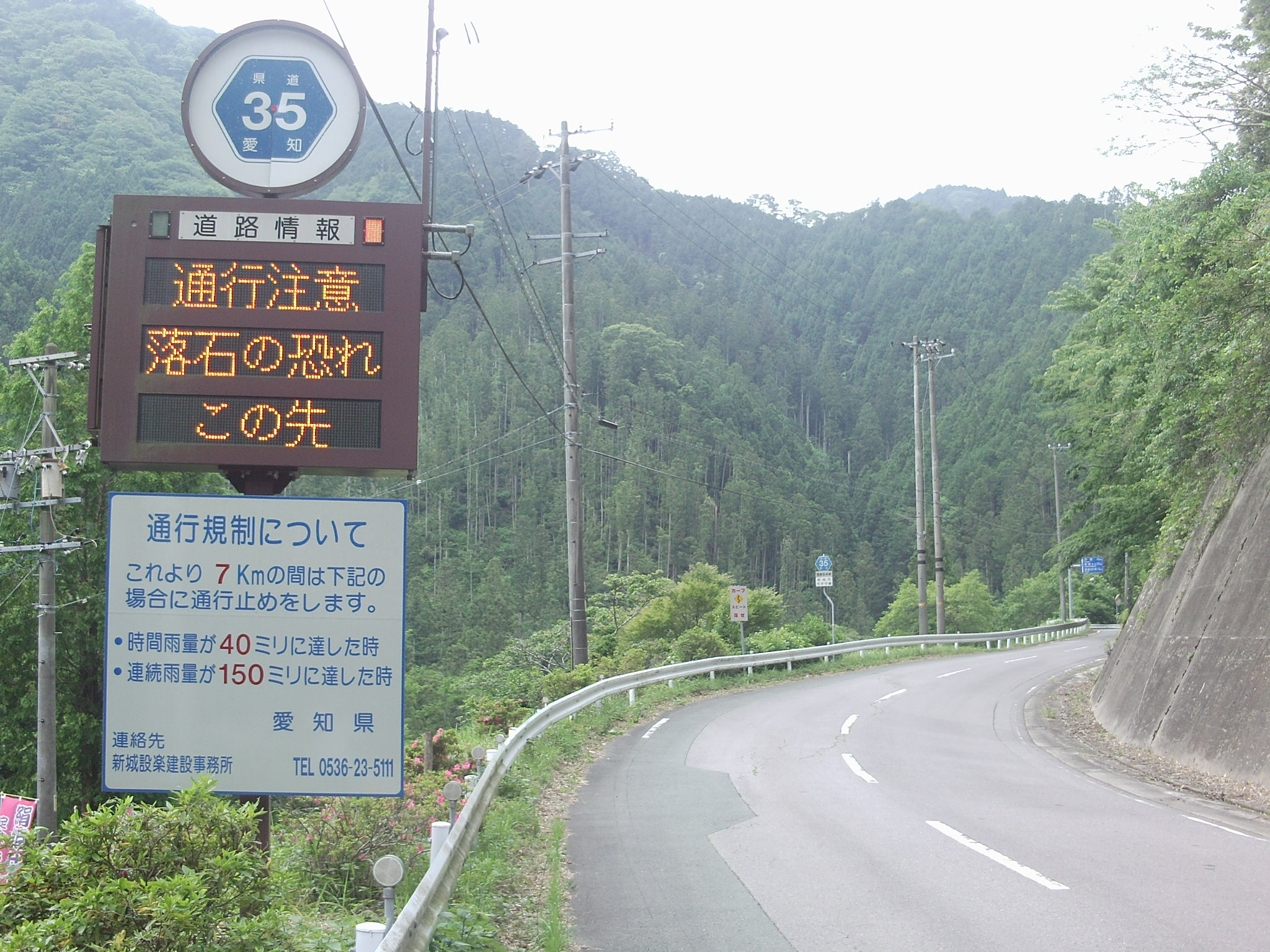 Aichi prefectural road No.35 in Tsukudemoriyoshi, Shinshiro, Aichi.